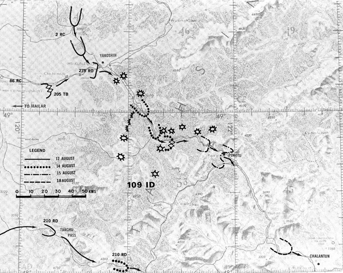 Soviet 36th Army Operations, 12-18 August 1945